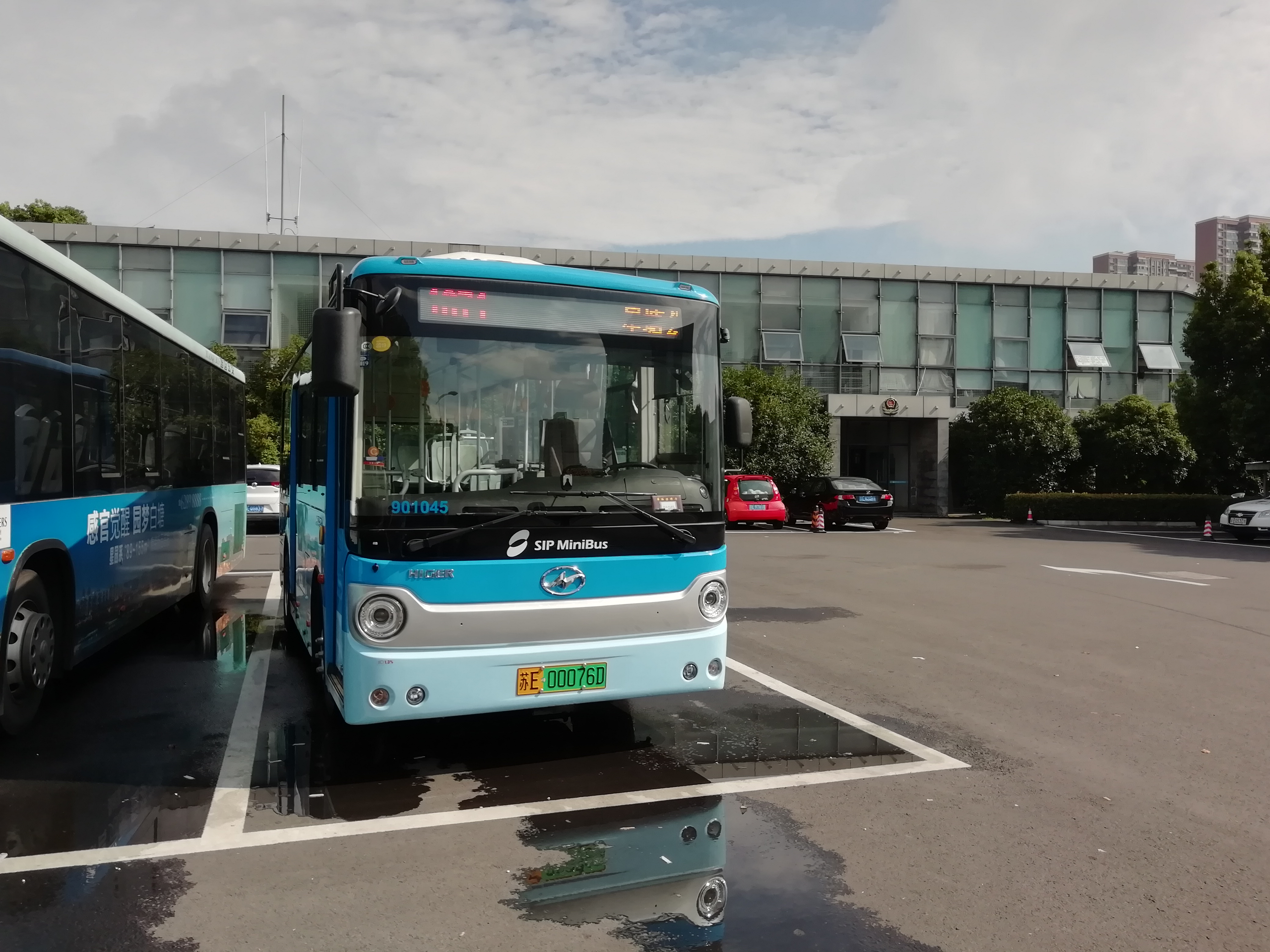 HIGER Minibus KLQ6650GEVN2, served as Suzhou Bus 1071 Route. This bus uses a new registration plate.